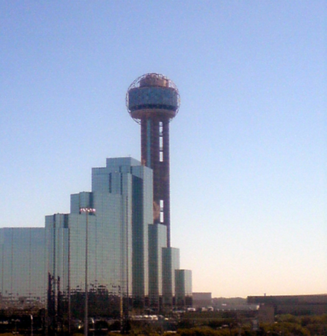 Reunion Tower as viewed from the parking garage of the Frank Crowley Courts Building just outside Downtown Dallas. Photo by Danny Burton, 10/23/07.